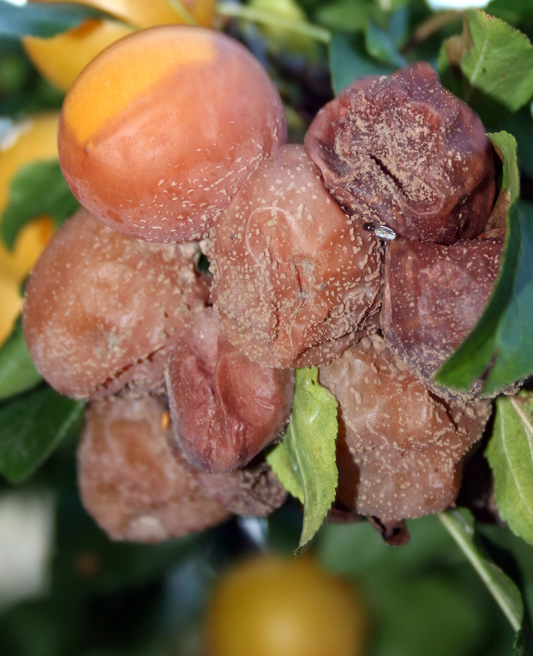 Fungi monilia at the mirabelle plum, Monilinia sp. at Prunus domestica var. syriaca, Family: Sclerotiniaceae, Location: Southern Germany, Blaubeuren